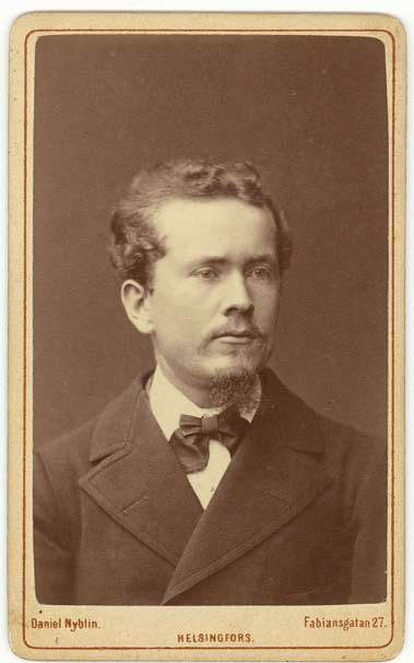 Photograph of the Finnish physician Eliel Warén (1854–1928).